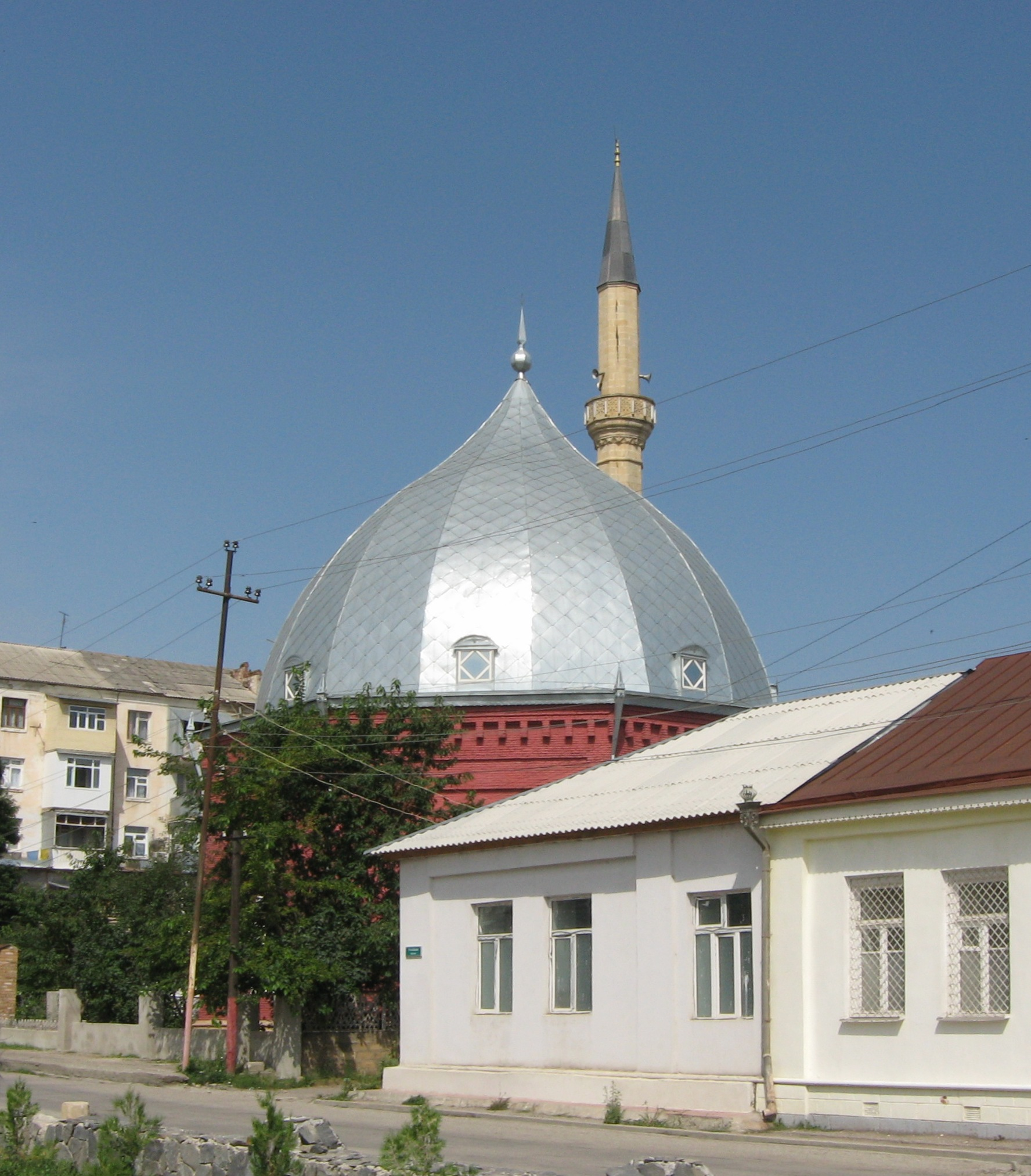 Juma Mosque in Quba, Azerbaijan. Built in the 19th century.